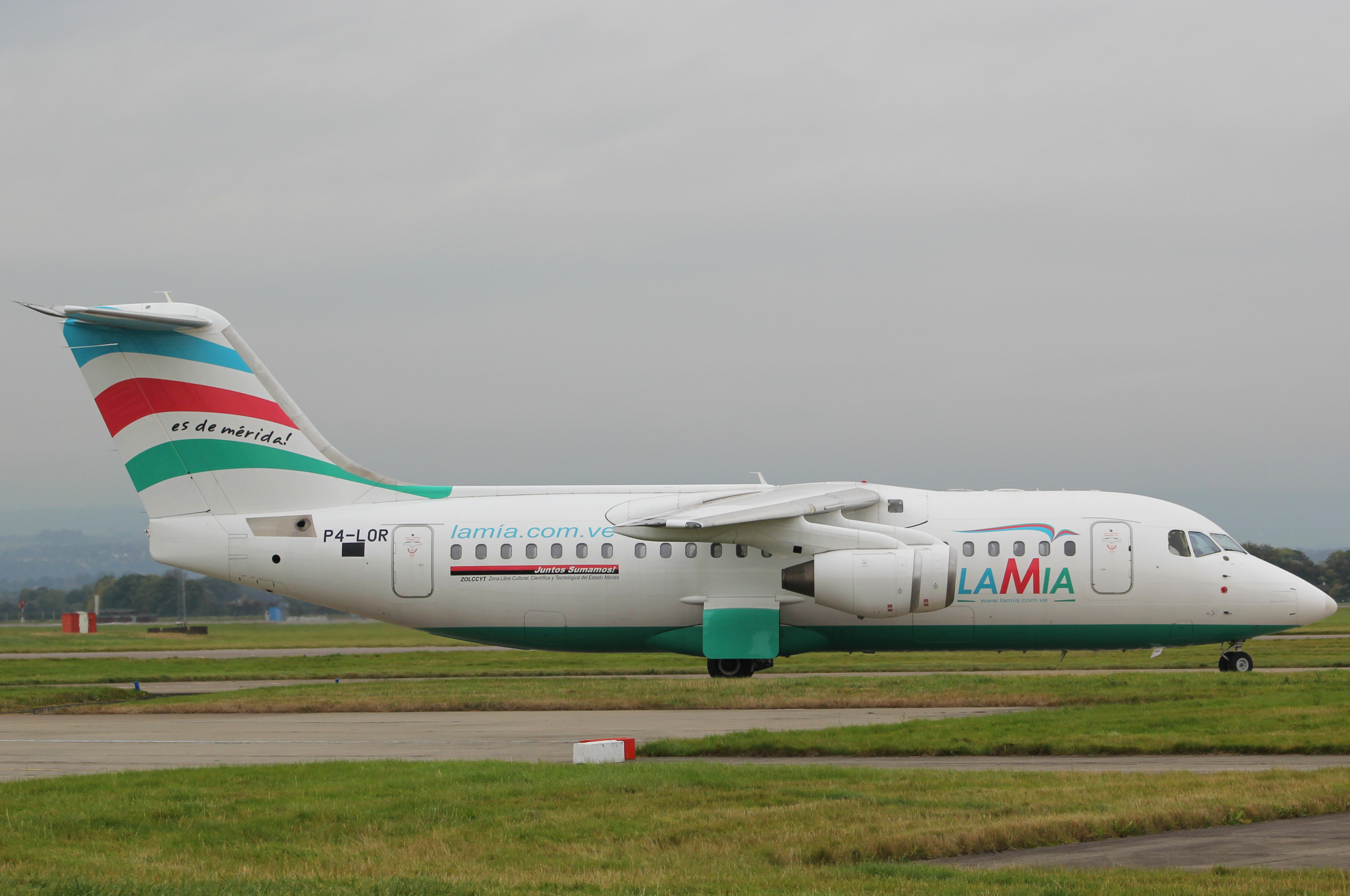 LaMia Avro RJ85 registered P4-LOR at Glasgow Airport, UK. This aircraft was registered as CP-2933 in January 2015 and crashed in the LaMia Airlines Flight 2933 accident in November 2016. Source